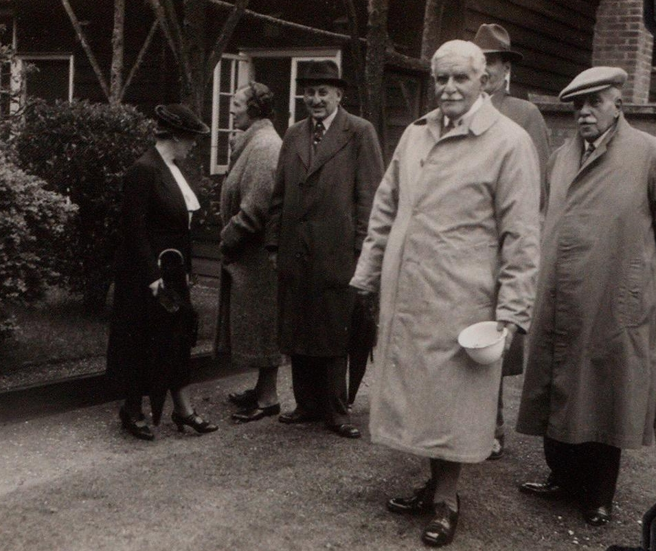 Mrs Bannerman, unknown lady, David Armitage Bannerman (27 November 1886 – 6 April 1979), Alfred Ezra and Sir David Ezra